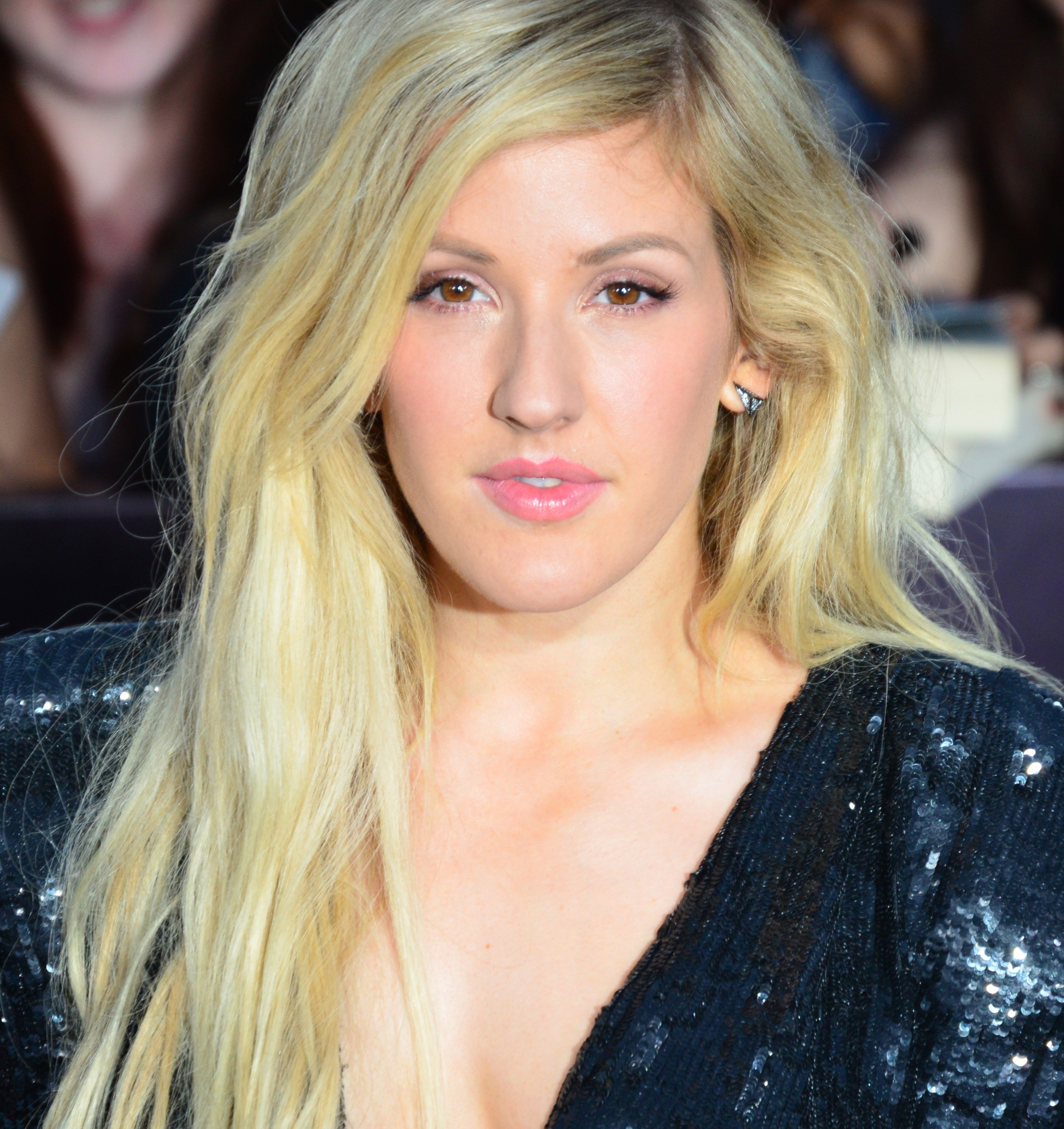 Singer Ellie Goulding at the film premiere of "Divergent" on March 18, 2014